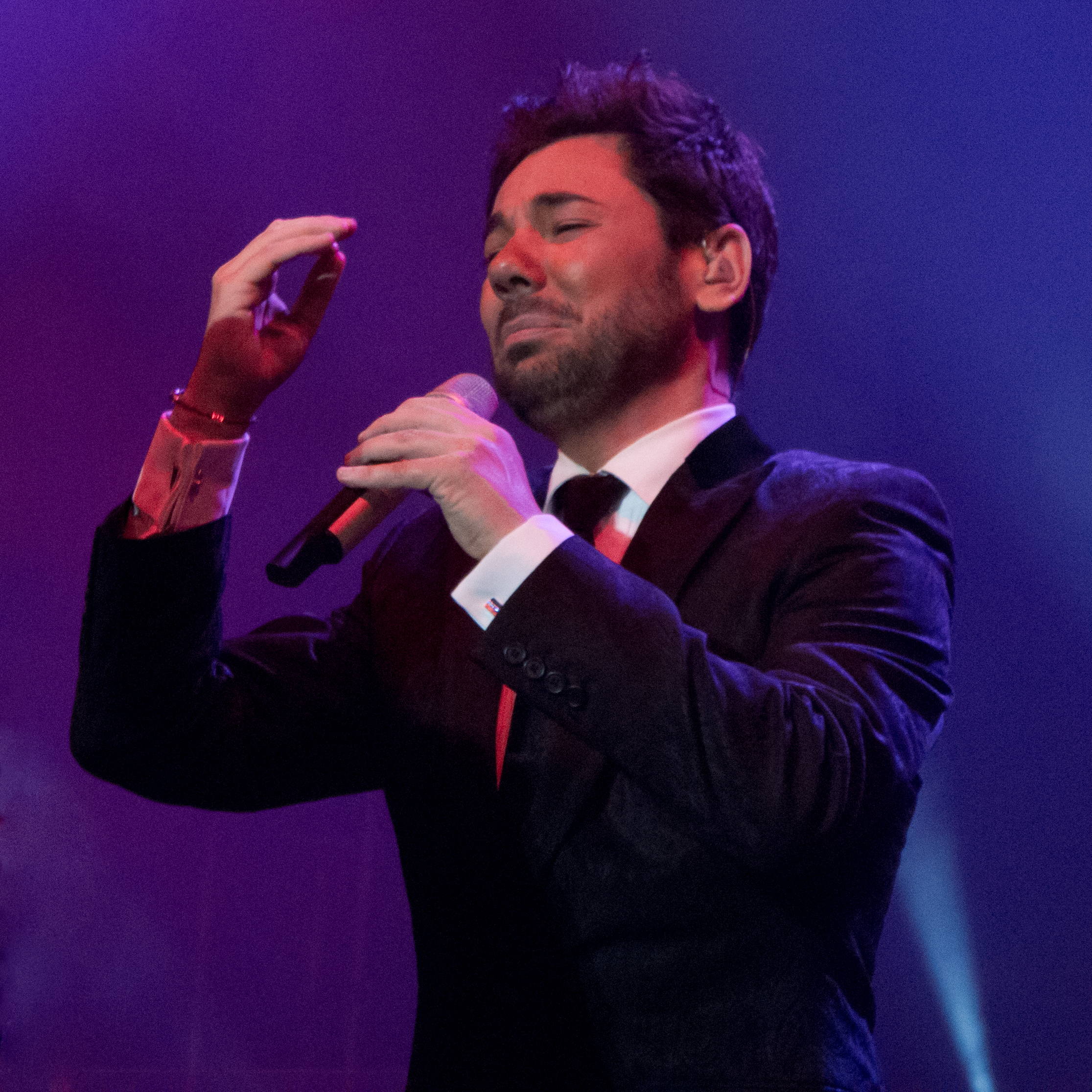 Miguel Poveda during a concert with Isabel Pantoja in Madrid in 2012.